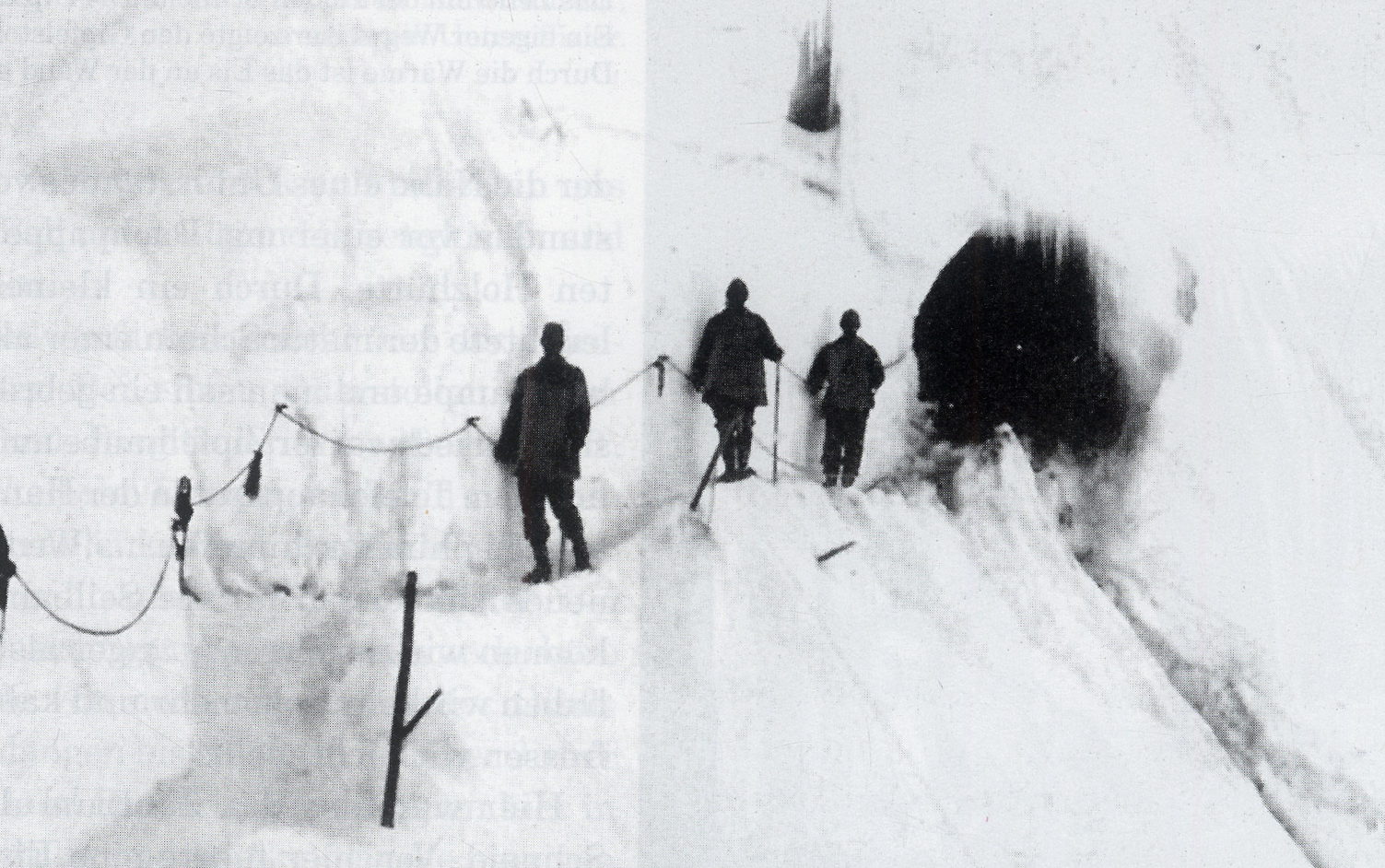 Entrance to the new ice tunnel to the Hohe Schneide